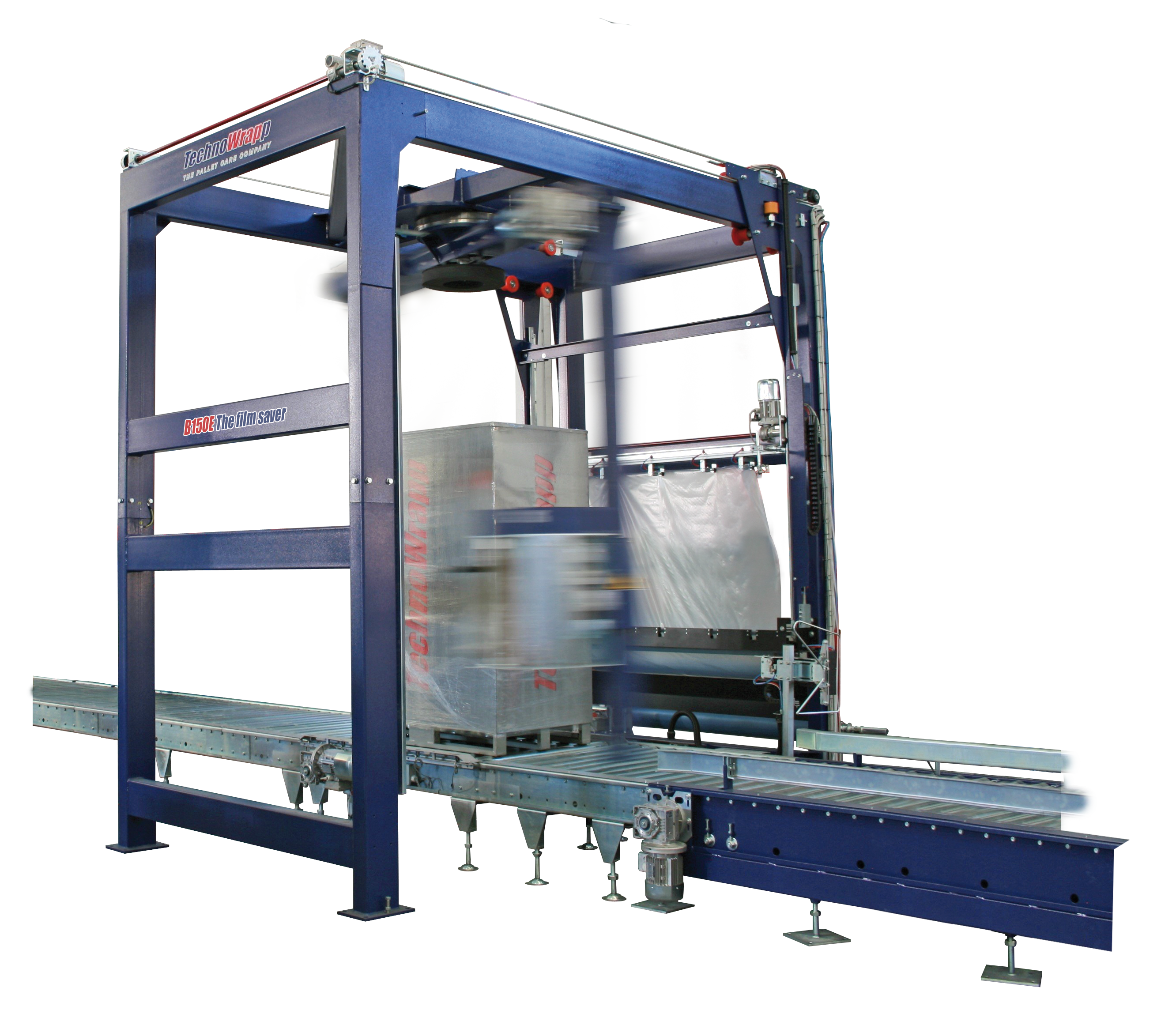 automatic rotary arm pallet wrapper